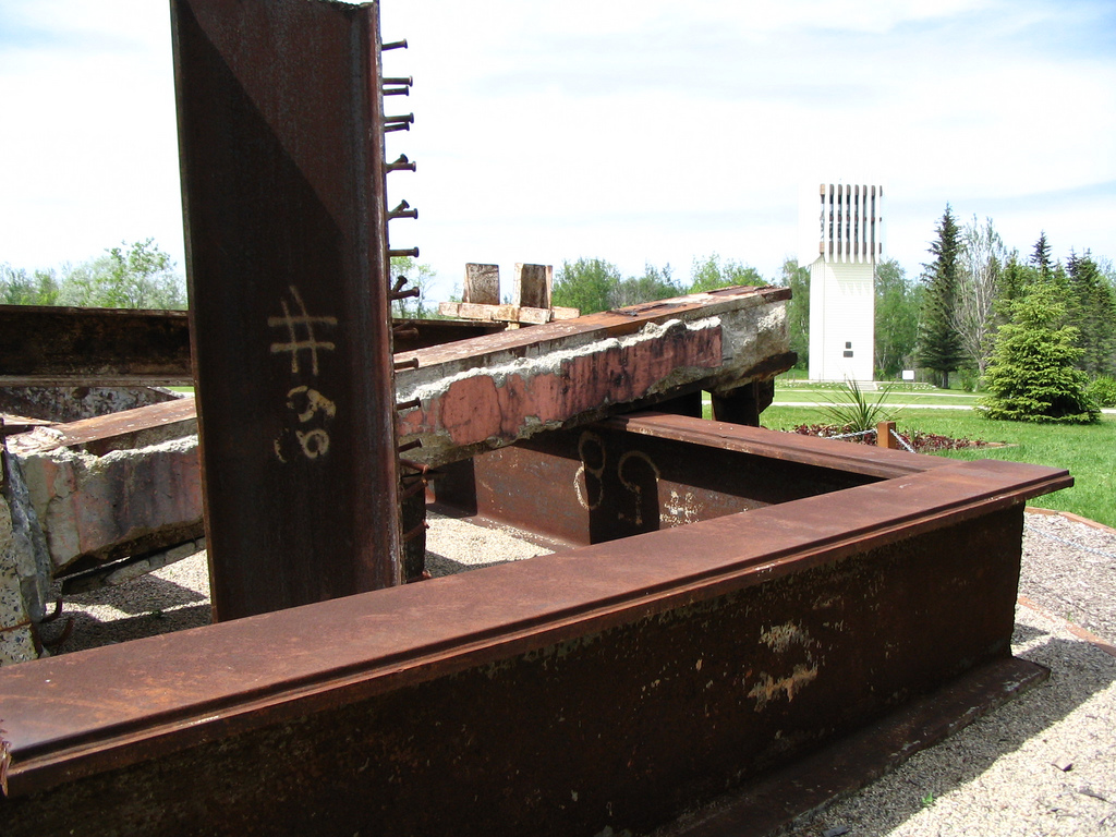 International Peace Garden United States and Canada Straddling the US-Canadian border between North Dakota and Manitoba, this expansive park features lawns, vistas, and floral displays. 9/11 Memorial In May of 2002, ten steel girders rescued from the former New York World Trade Center were brought to rest at the International Peace Garden. This memorial was made to those who lost their lives in the tragic event of September 11, 2001, terrorist attacks on the United States. A small cairn is also at the site made by stones gathered from children from the United States and Canada.